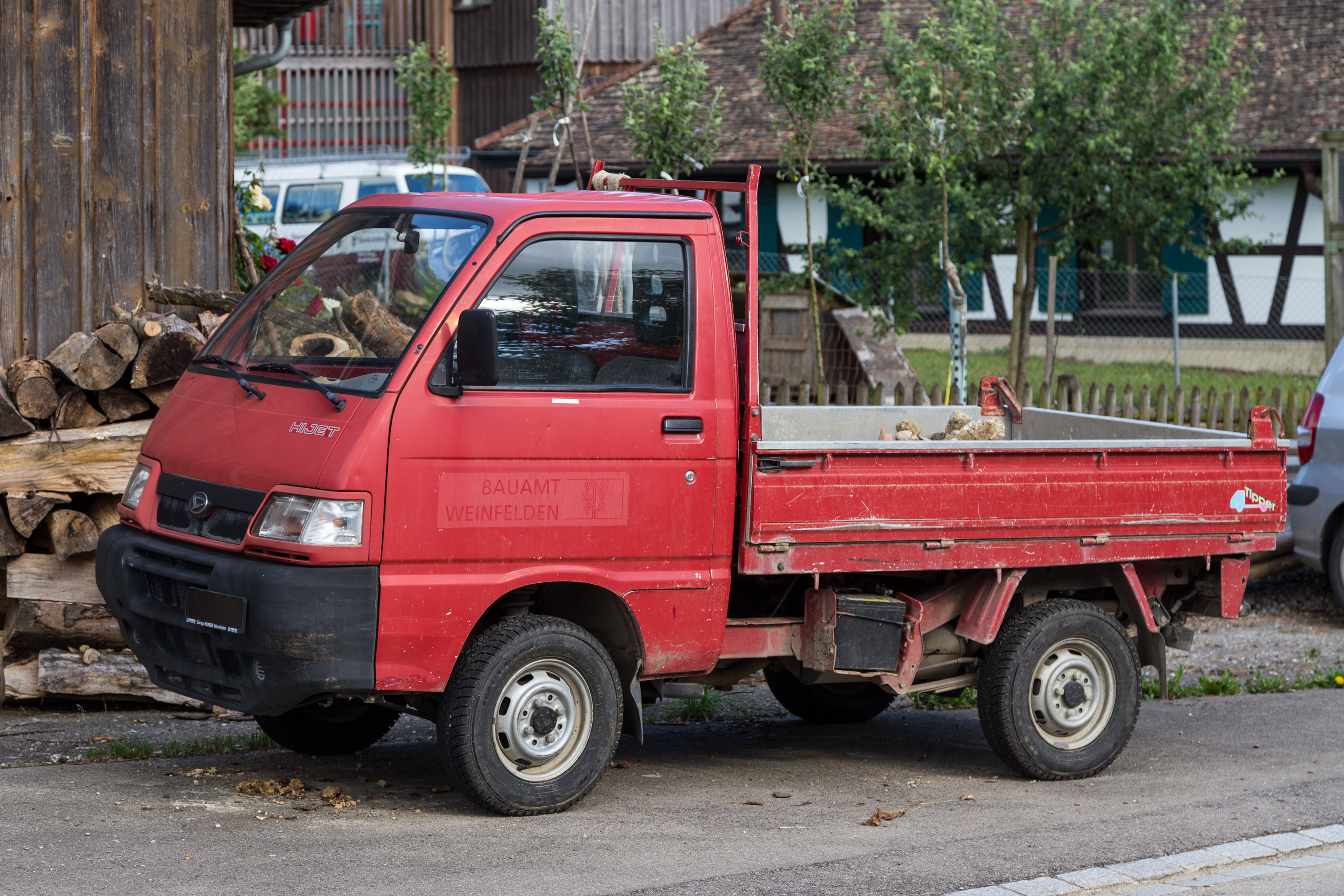 Daihatsu Hijet Tipper